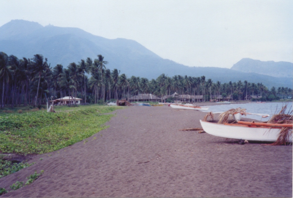 A black beach on Camiguin Island, with Mt. Hibok-Hibok at the background picture taken by Magalhães in 1997